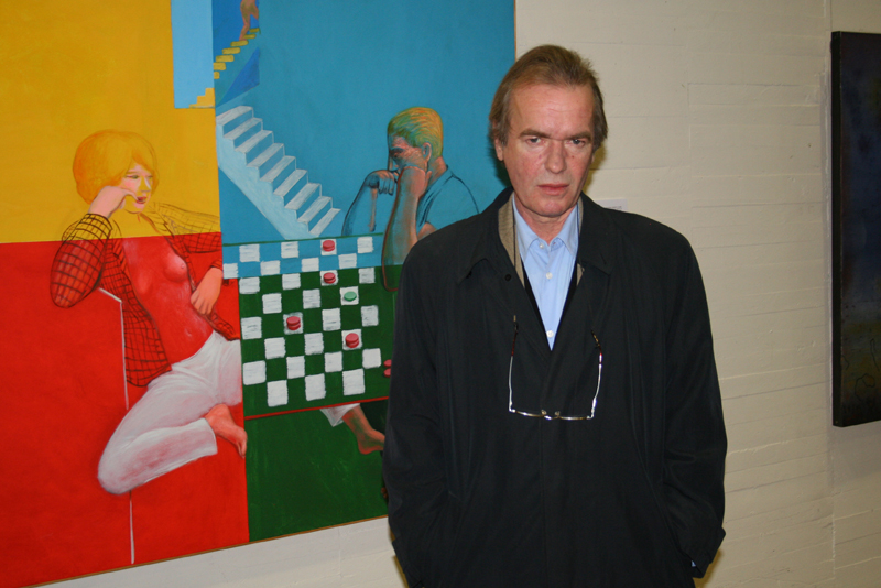 Martin Amis gives a speech in León, in northern Spain, in 2007.